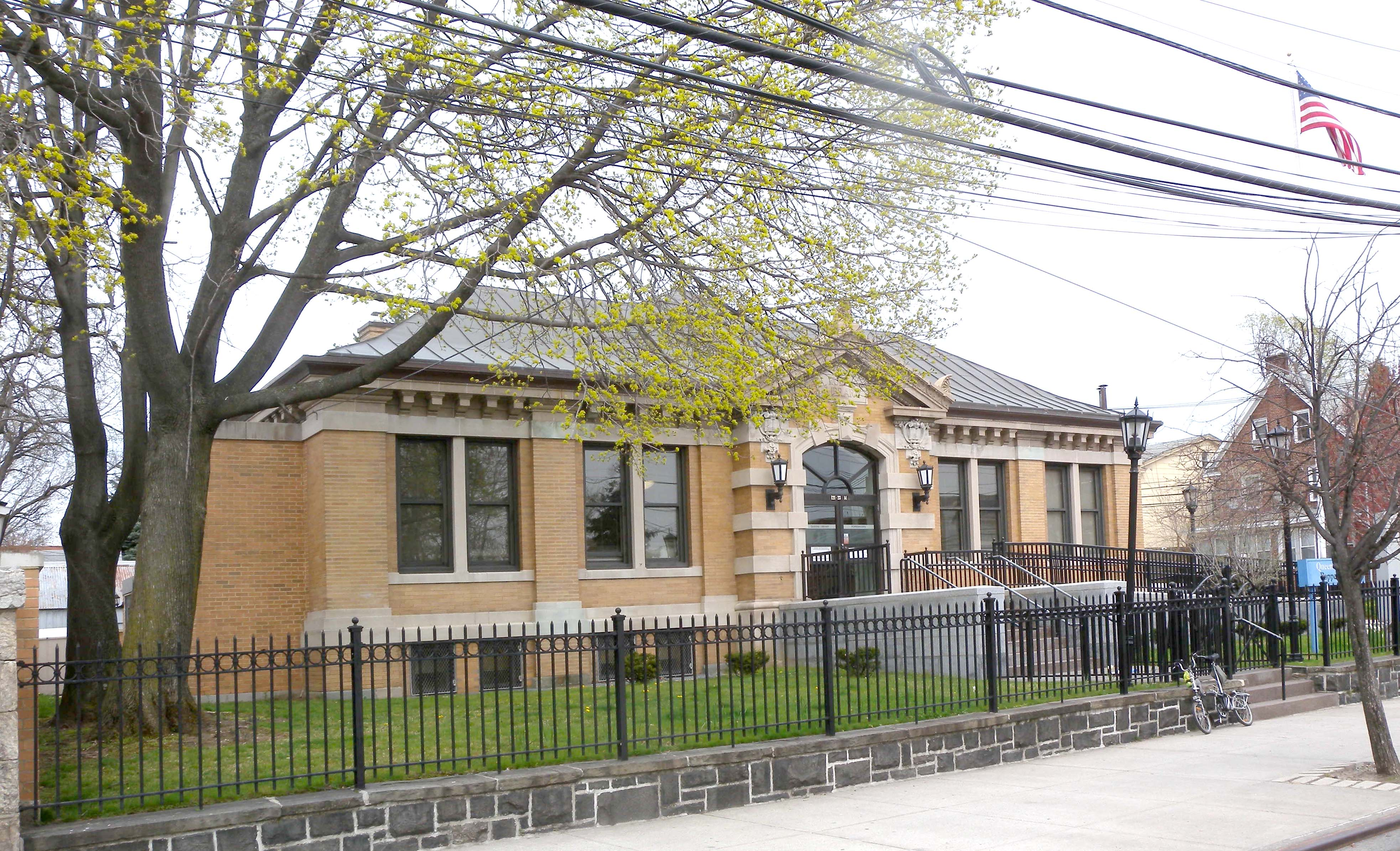 Looking northeast at Poppenhusen Branch of Queens Public Library on a cloudy midday. NYCLPC designation 2000.